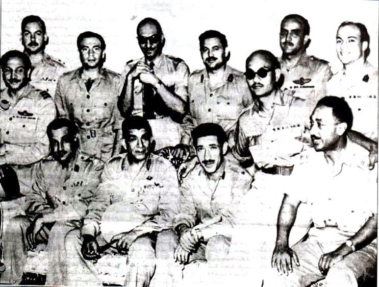 The Free Officers Movement of Egypt. Bottom row from left to right are Gamal Abdel Nasser, Mohammed Naguib, Abdel Hakim Amer and Anwar Sadat